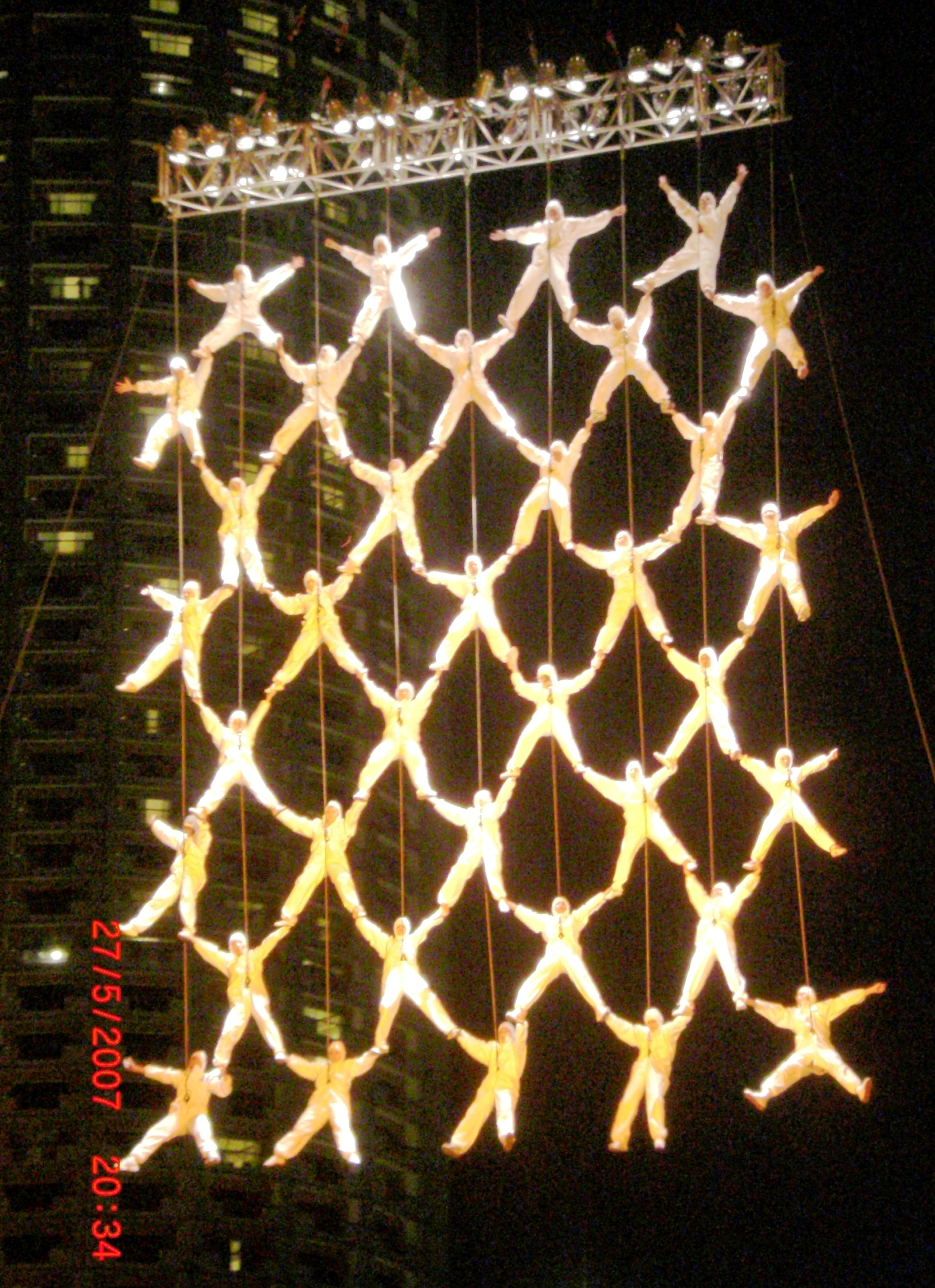 La Fura dels Bau performing Dreams In Flight Singapore Arts Festival 2007 opening.